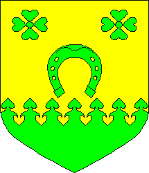 Old coat of arms of Loodna Parish (1996–2002).